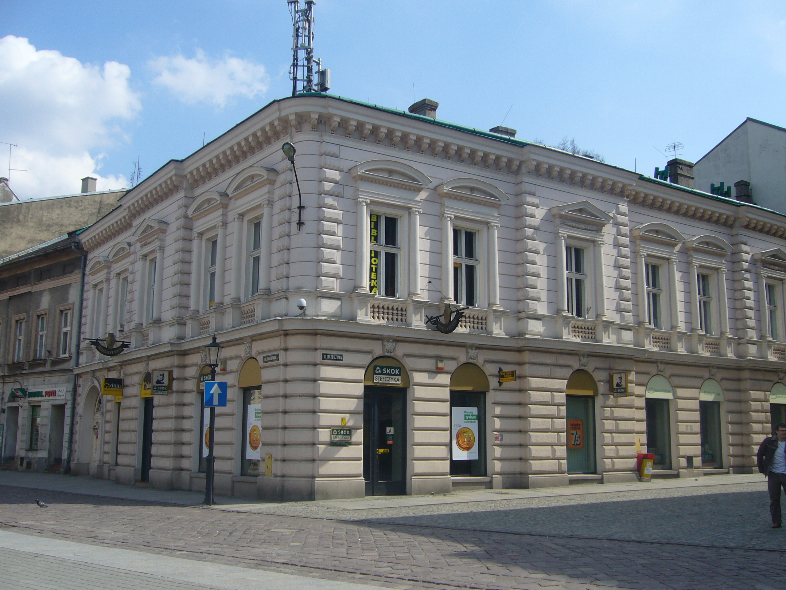 Strzygowski Palace (library) in Bielsko-Biała